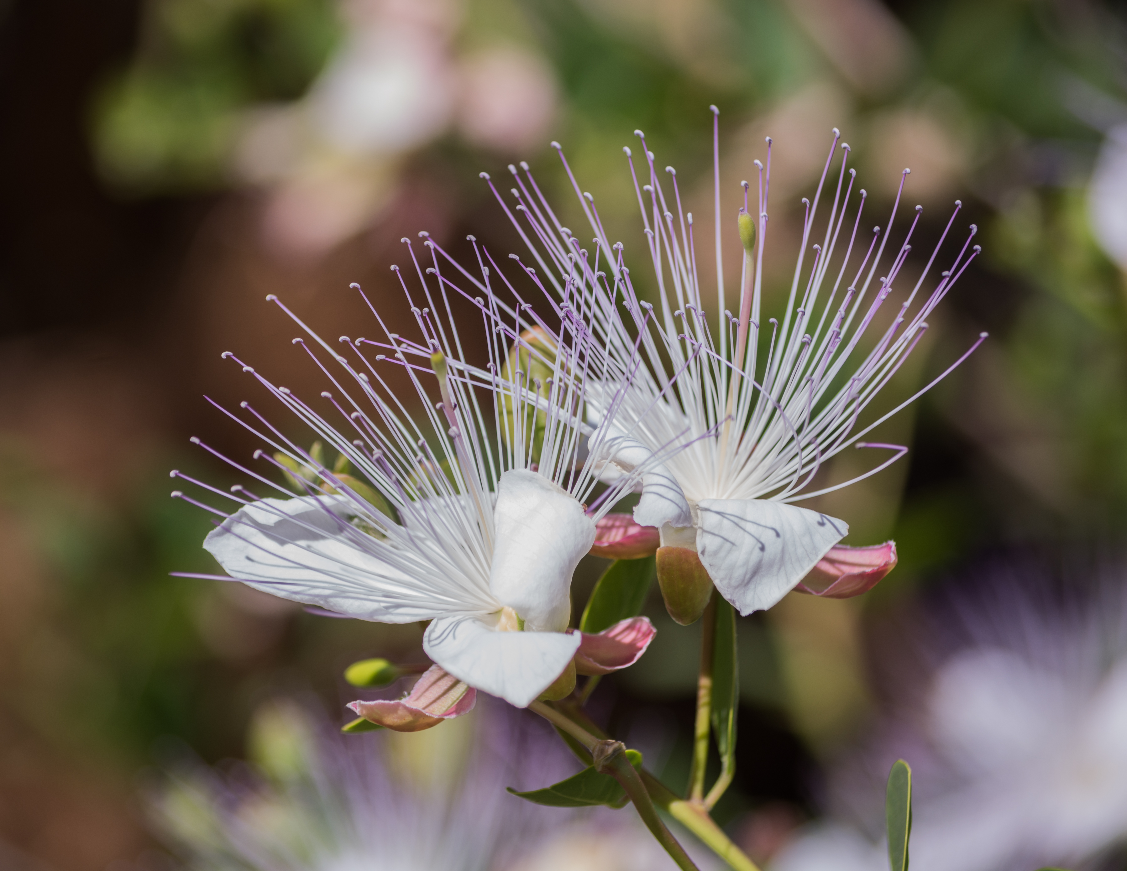 Capparis spinosa in the Ichkeul National Park.